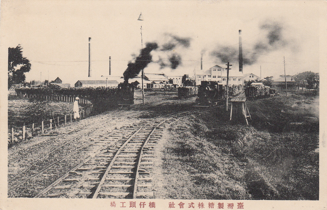 Sugar industry in Taiwan.